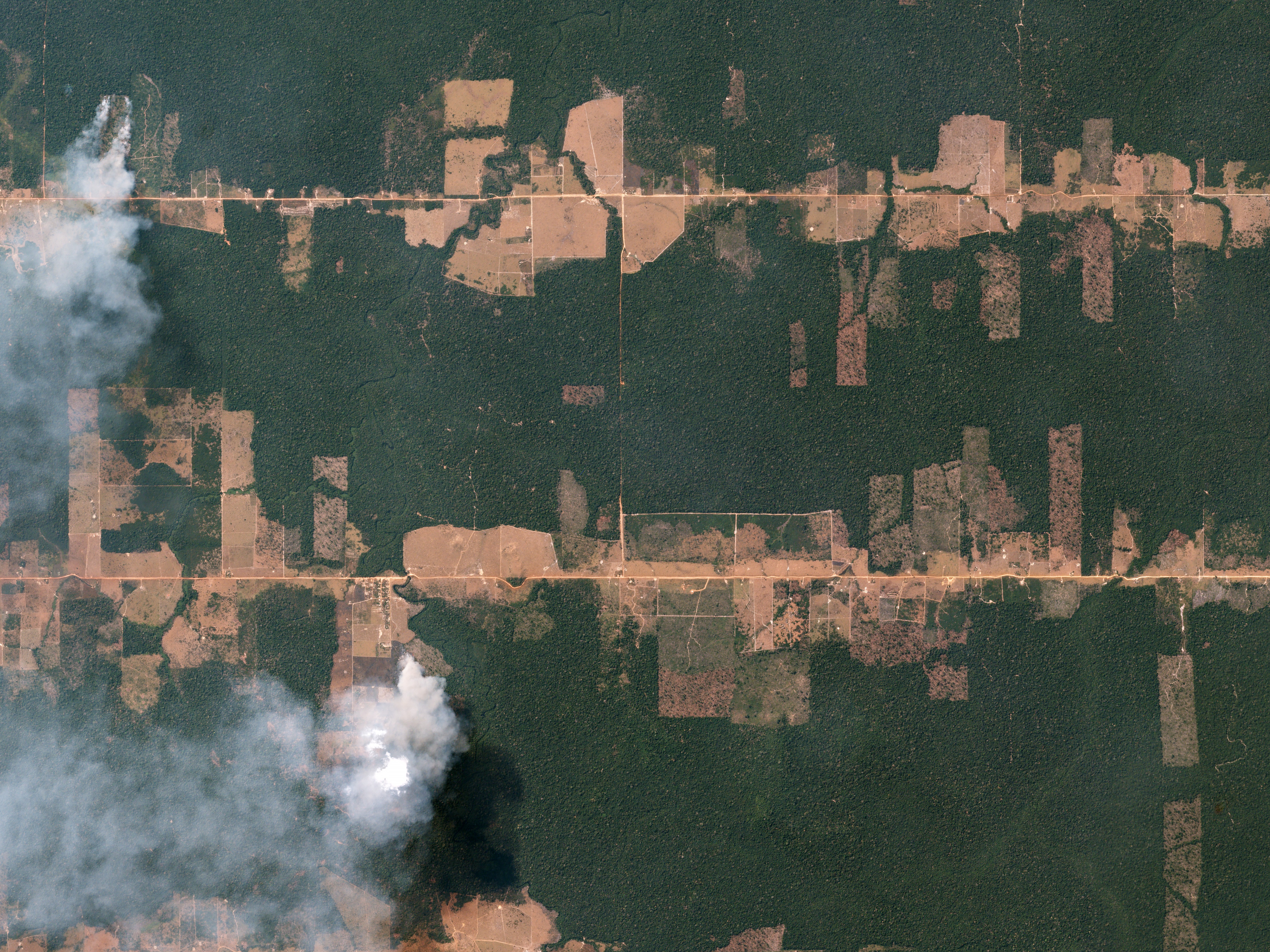 Fishbone Deforestation Rondônia, Brazil August 5, 2016 In the Amazon rainforest—just east of Porto Velho, Brazil—fires burn, clearing hectares of rainforest in preparation for farming and grazing.